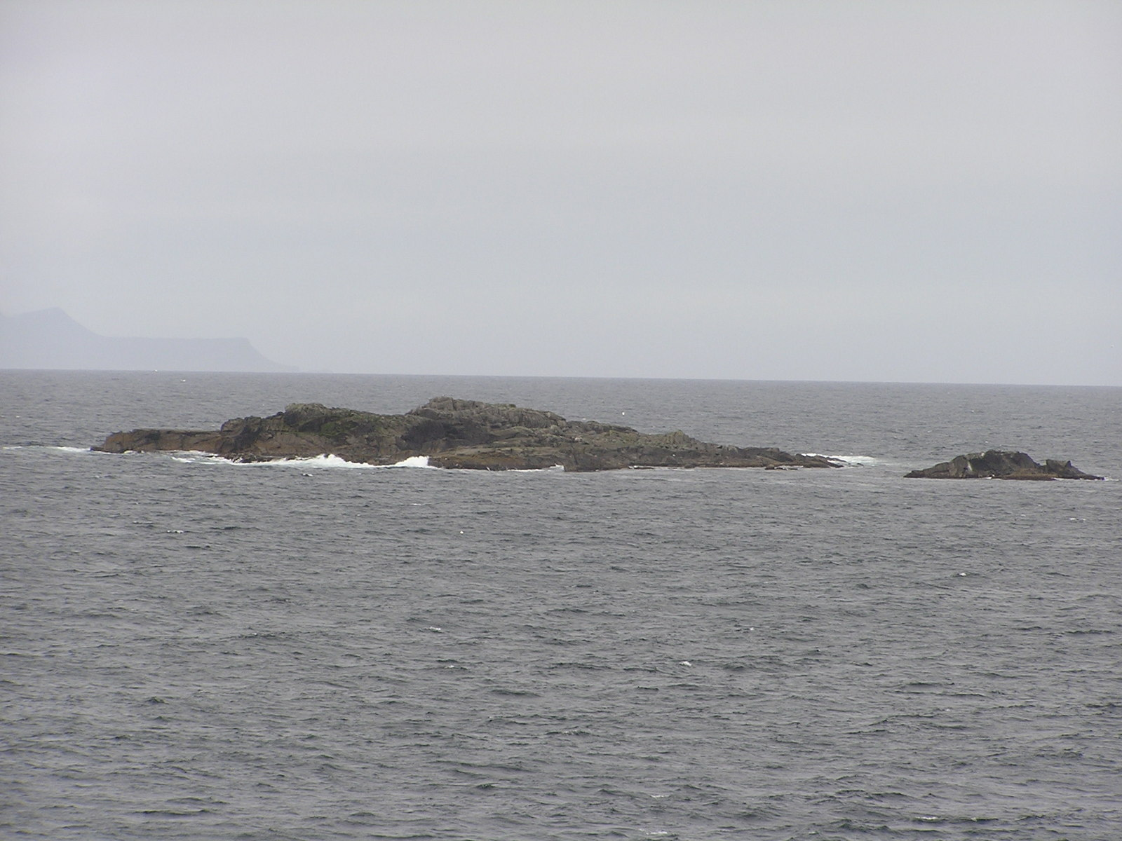 Steggies, near Oxna Viewed from Fugla Ness on Burra.